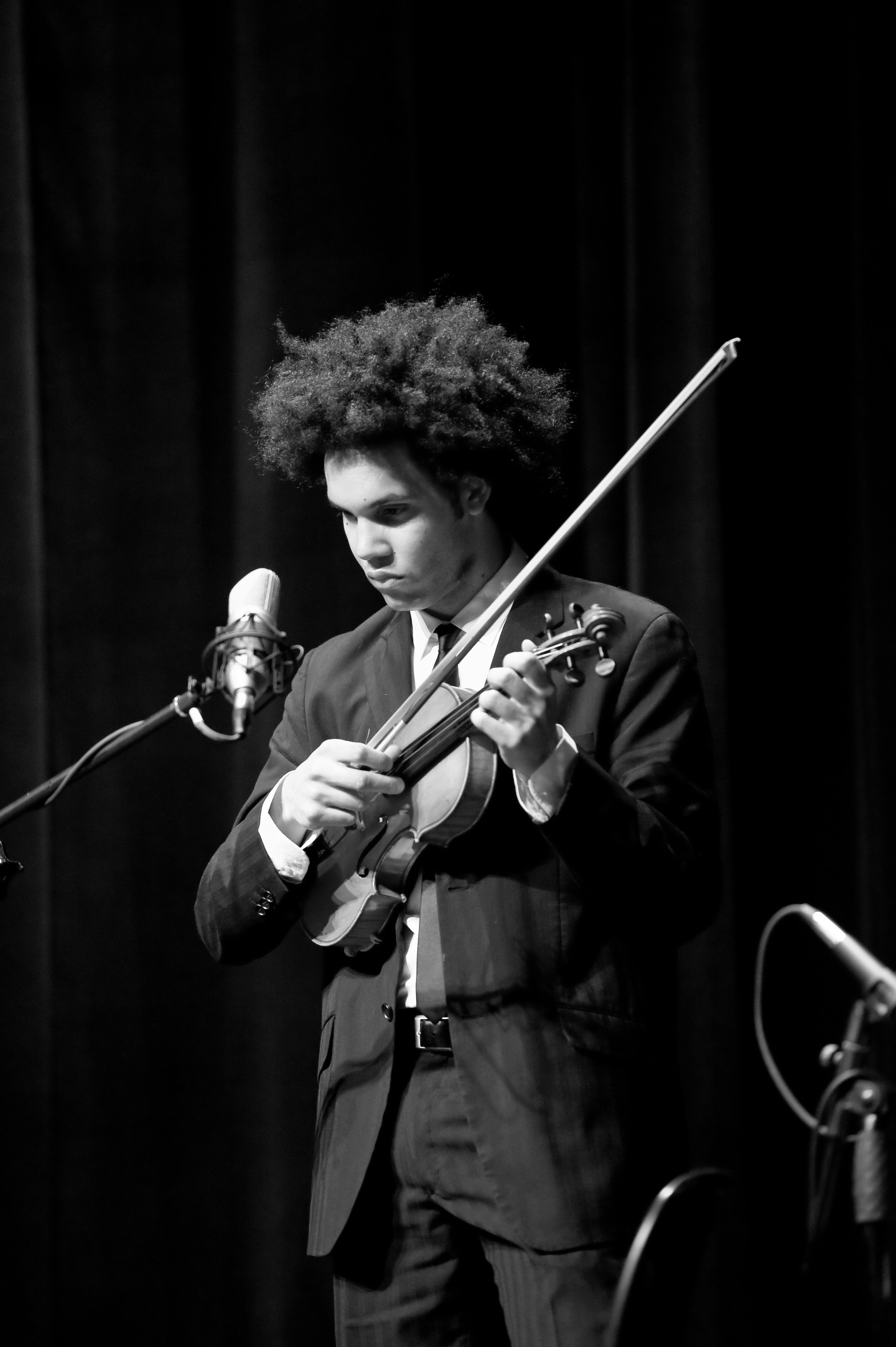 Scott Tixier, photo concert New York